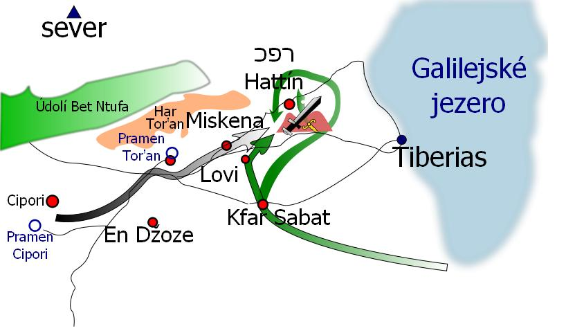 Map of the region where the Battle of Hattin took place.